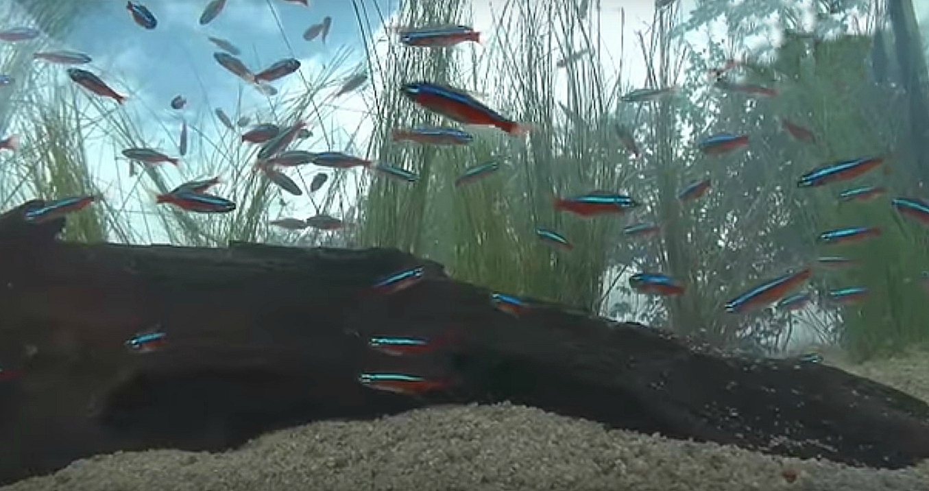 wild aquarium